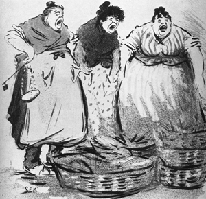 Trading fish in Marseille